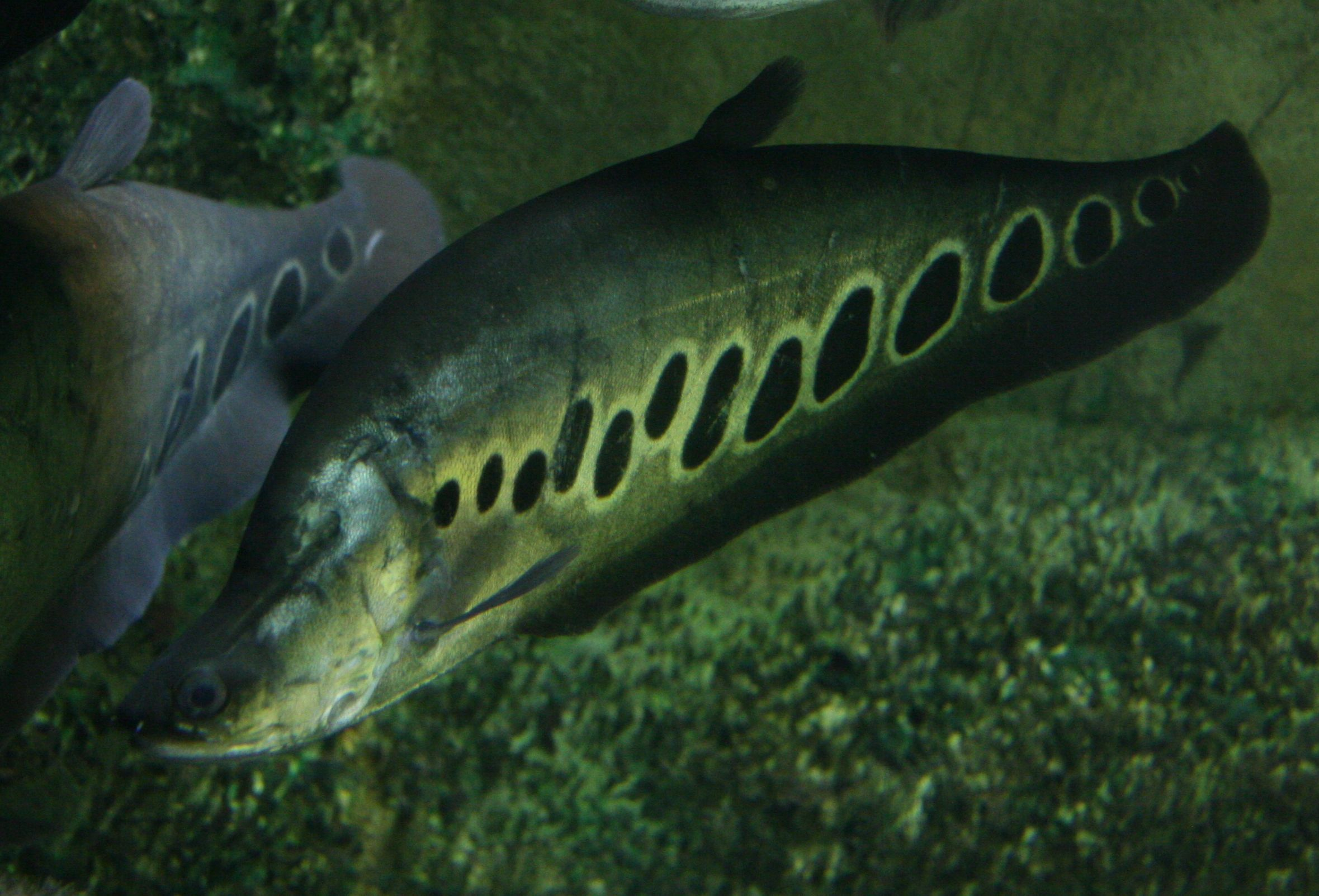 ZOO in Ostrava, Czech Republic